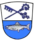 Coat of Arms of Peterswörth in Gundelfingen an der Donau